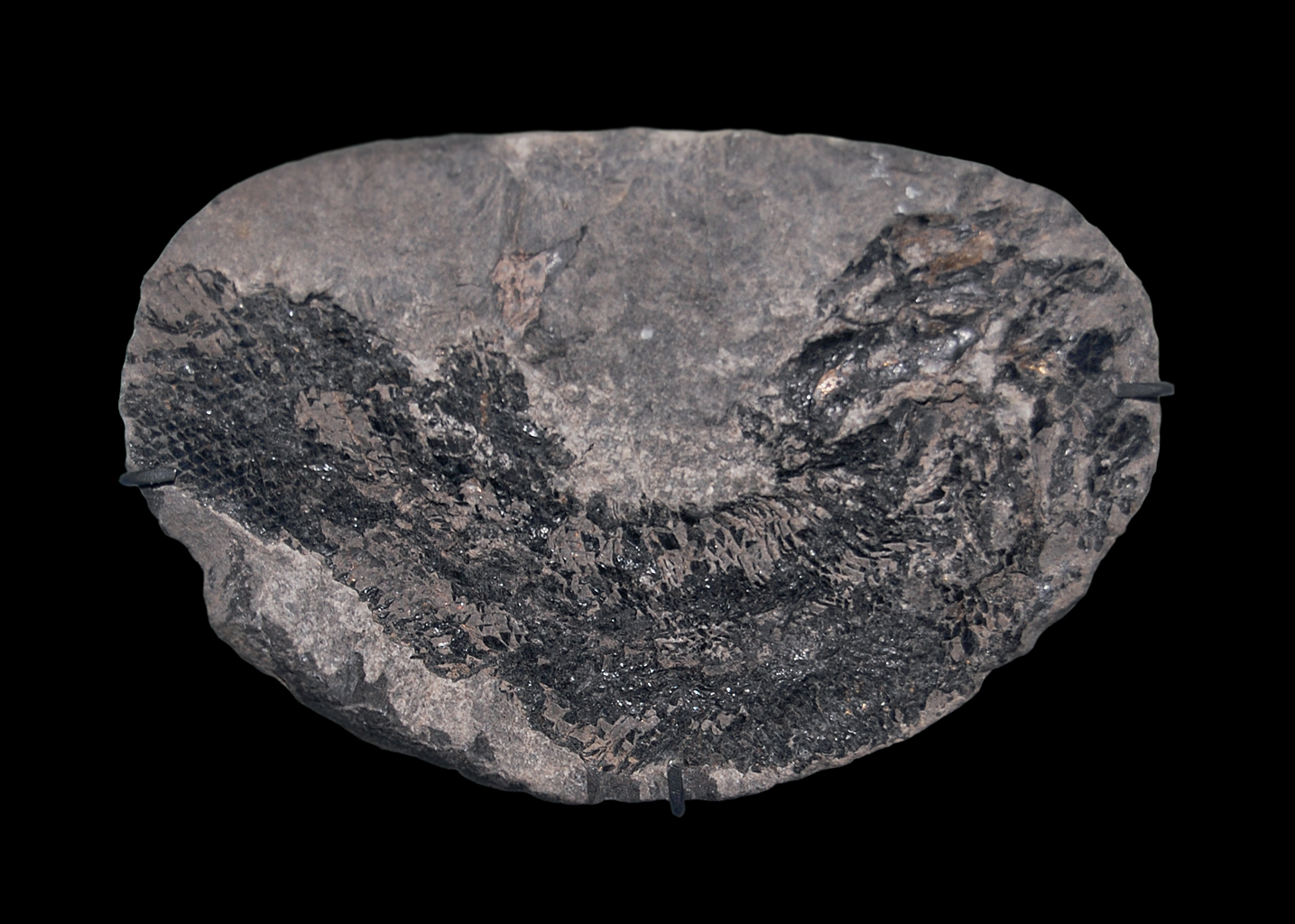 Fossil in the Oxford University natural history museum